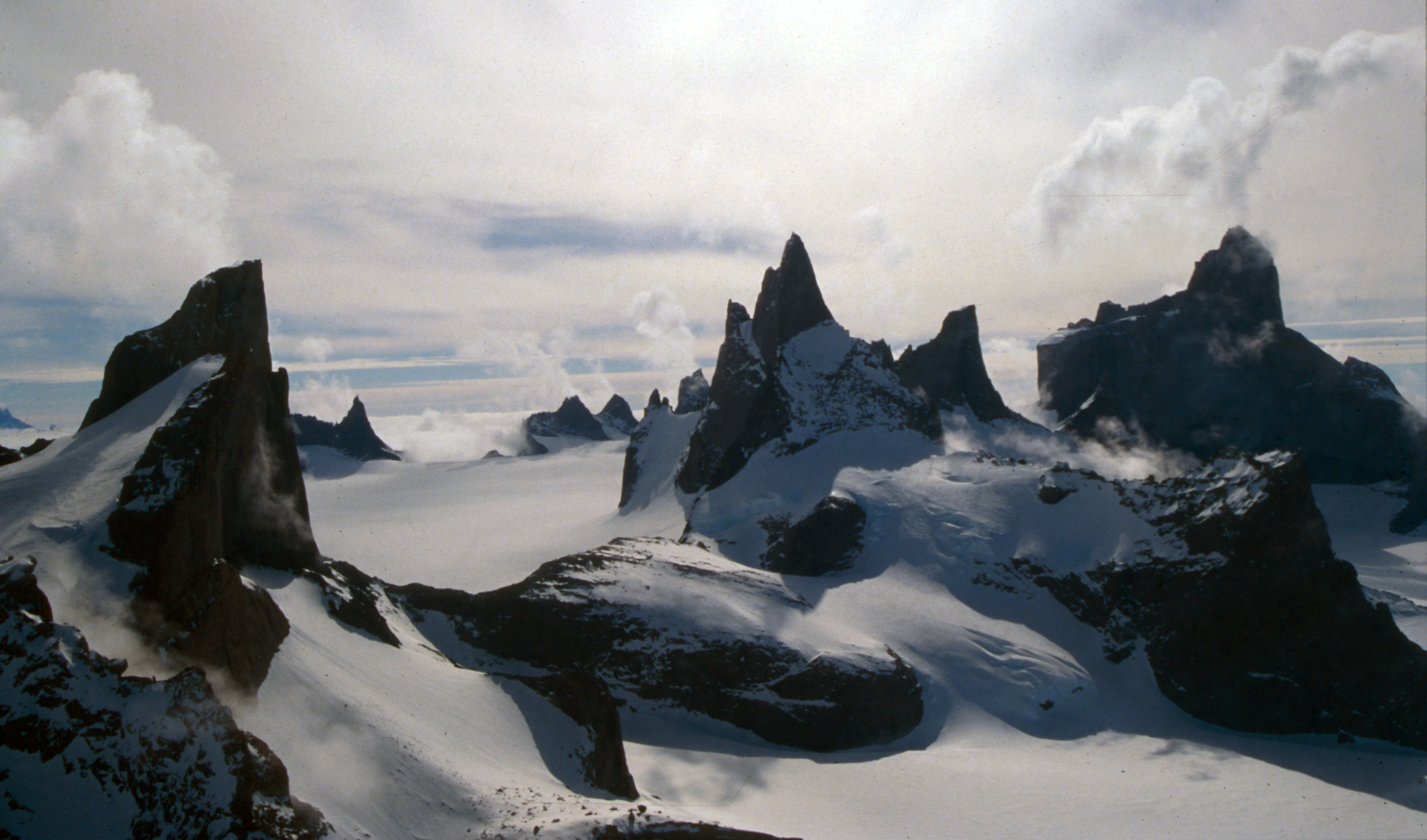 View over the southern Drygalski Mountains in NW direction, peak on the right is the Ulvetanna